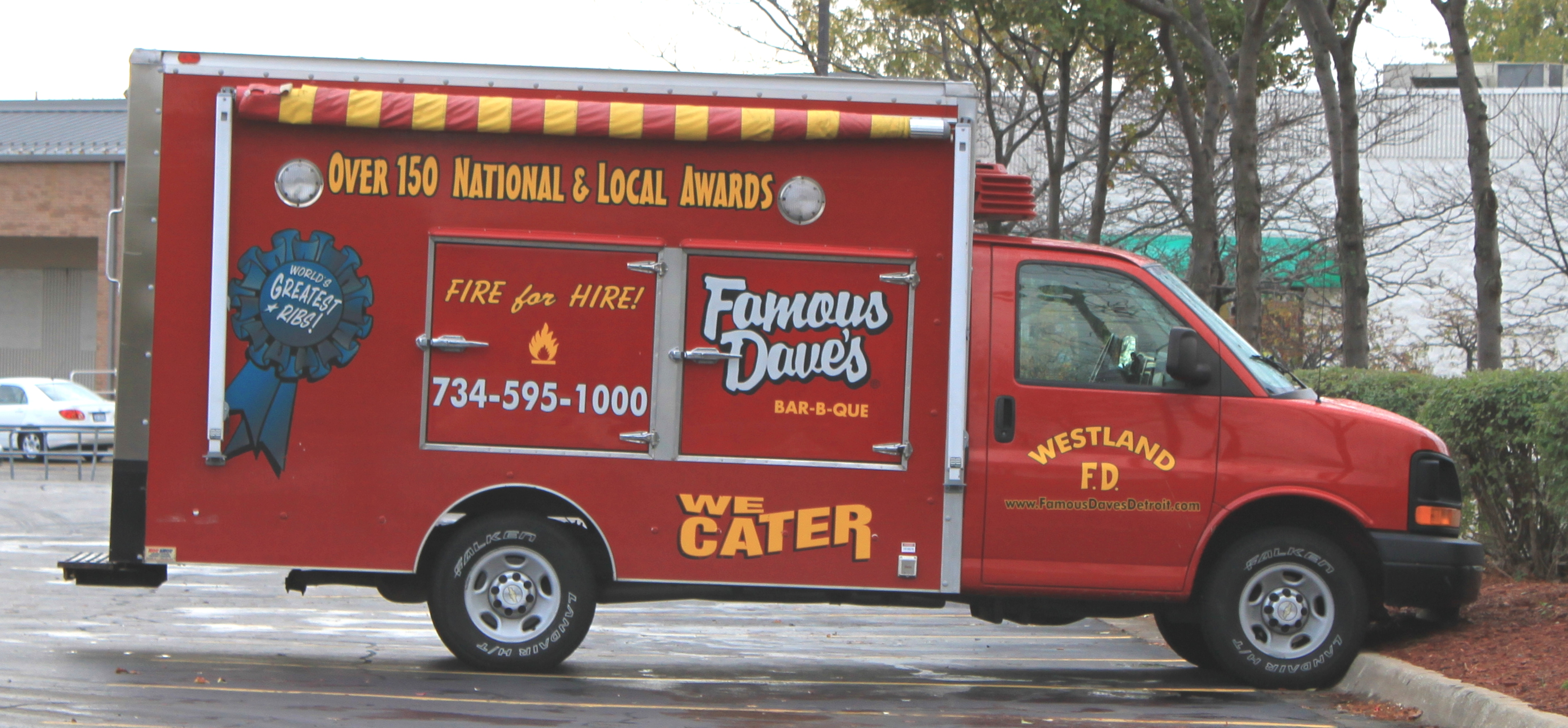 Famous Dave's BBQ catering truck, 36601 Warren Road, Westland, Michigan